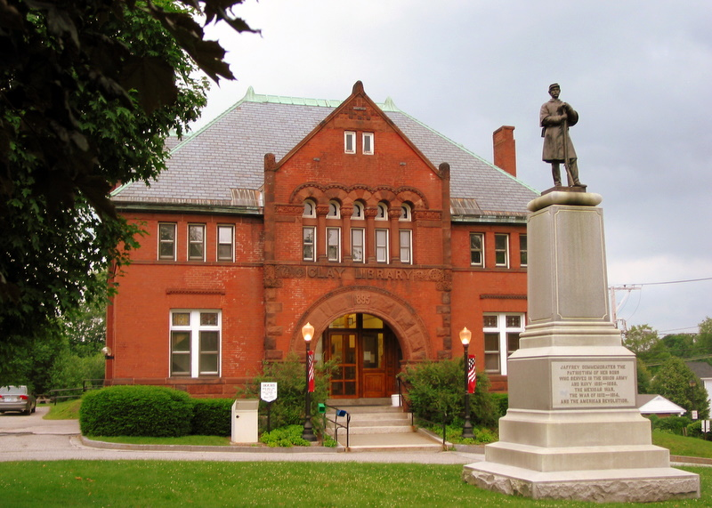 Clay Library, Jaffrey, New Hampshire. I took this photograph on June 29, 2006.